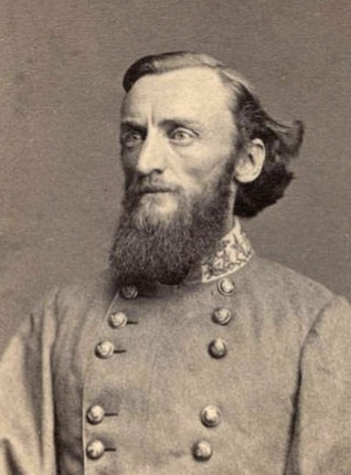 Major General John S. Marmaduke, C.S.A., Butler Center for Arkansas Studies, Central Arkansas Library System